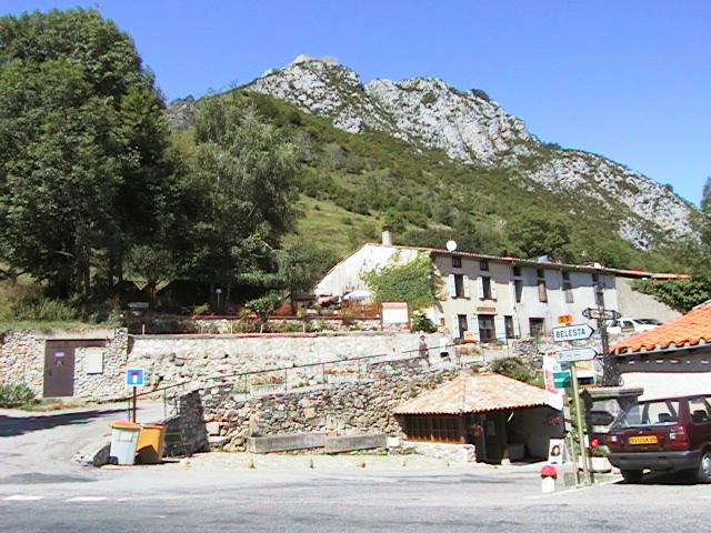 Château de Montségur - seen from the village of Montségur (Ariège, France).